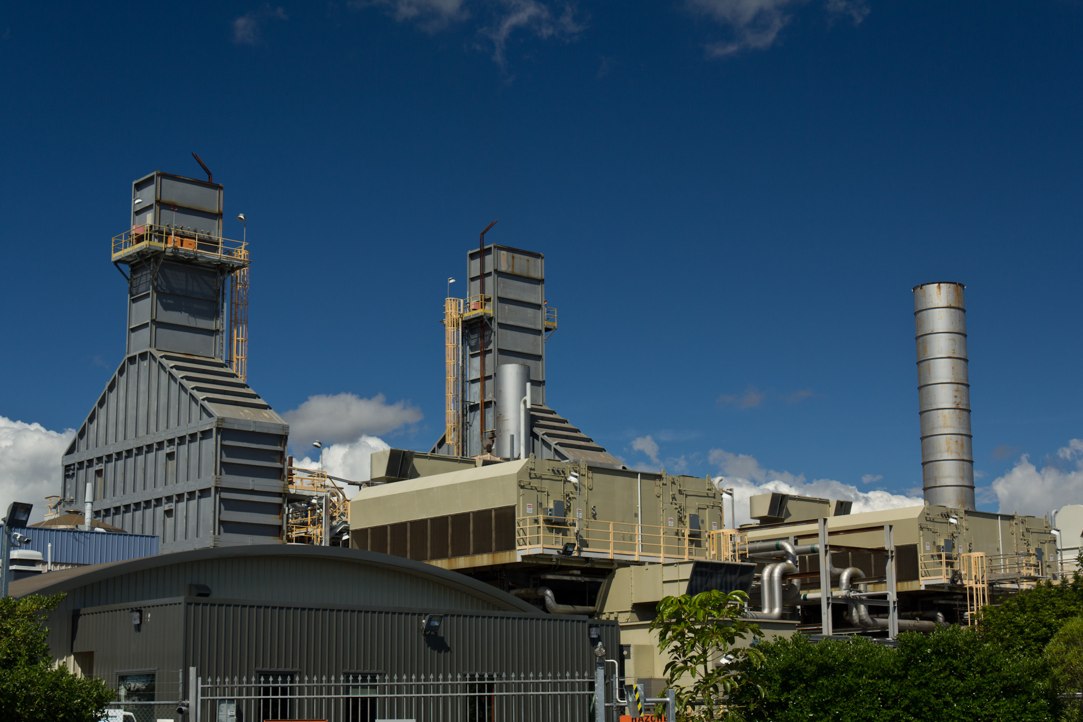 Southdown Power Station's turbine stacks.